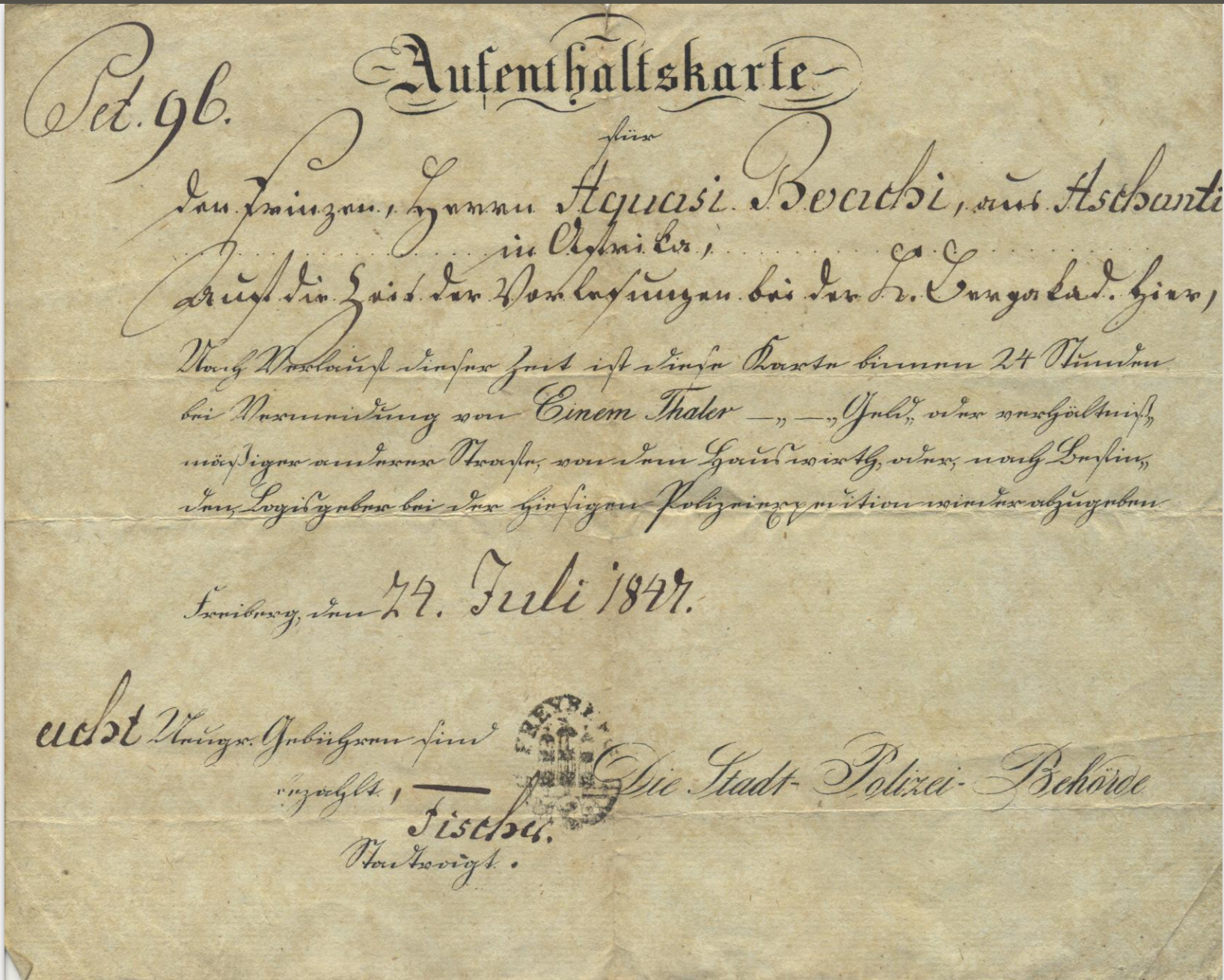 Residency permission for Kwasi Boakye in Freiberg